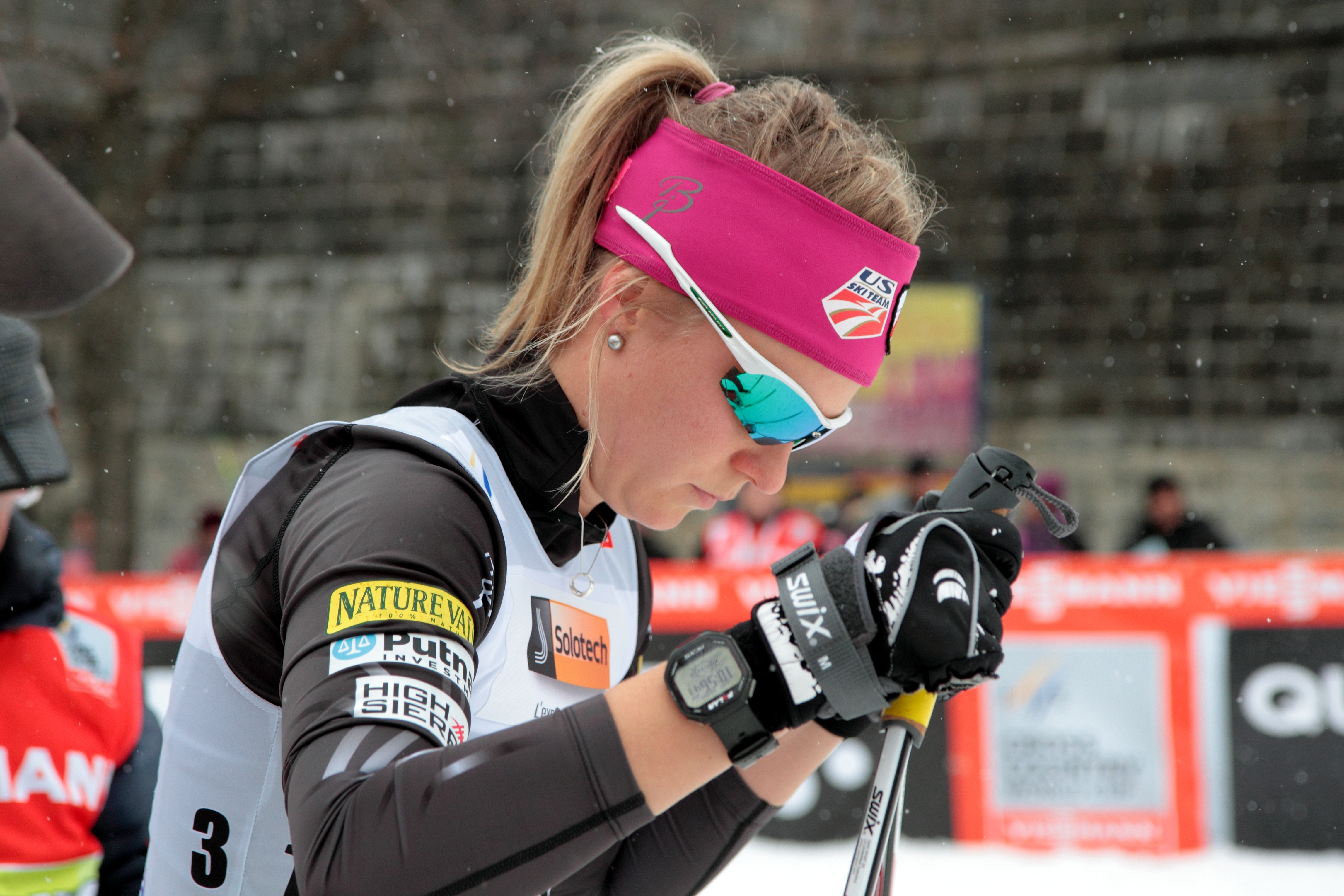 Sadie Bjornsen, FIS Cross-Country World Cup 2012, Quebec, Canada.